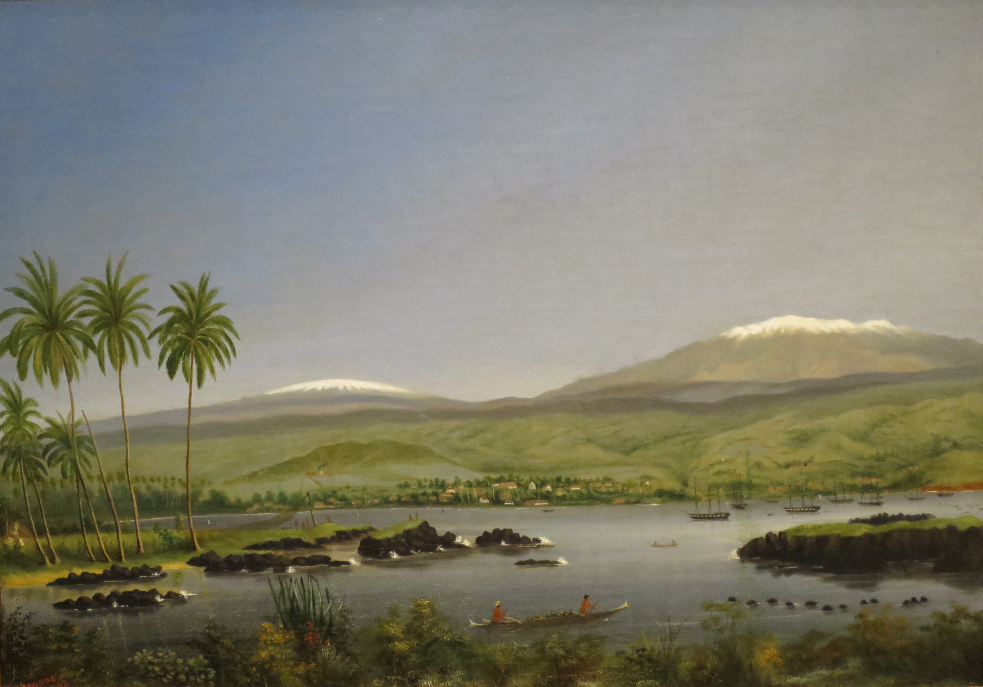 'Hilo from the Bay', oil on canvas painting, Honolulu Museum of Art, accession 7065.1